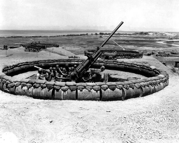 View of #4 90mm AAA gun emplacement with crew in pit. "D" Battery, 98th AAA Gun Bn., 137th AAA Gp. Okinawa, July 18, 1945. Hendrickson. (Army) NARA FILE #: 111-SC-211476 WAR & CONFLICT BOOK #: 1225